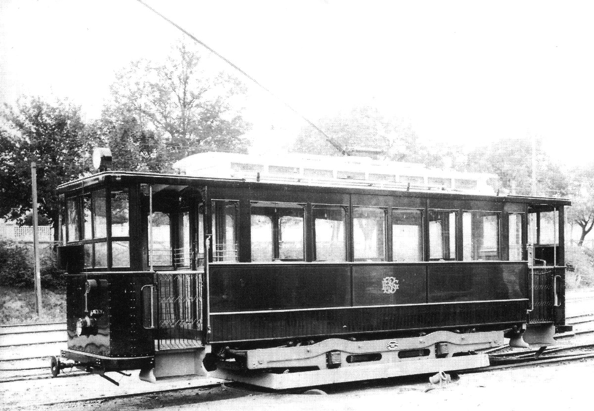 Tram No. 1II, Brno, Moravia (now Czech Republic)